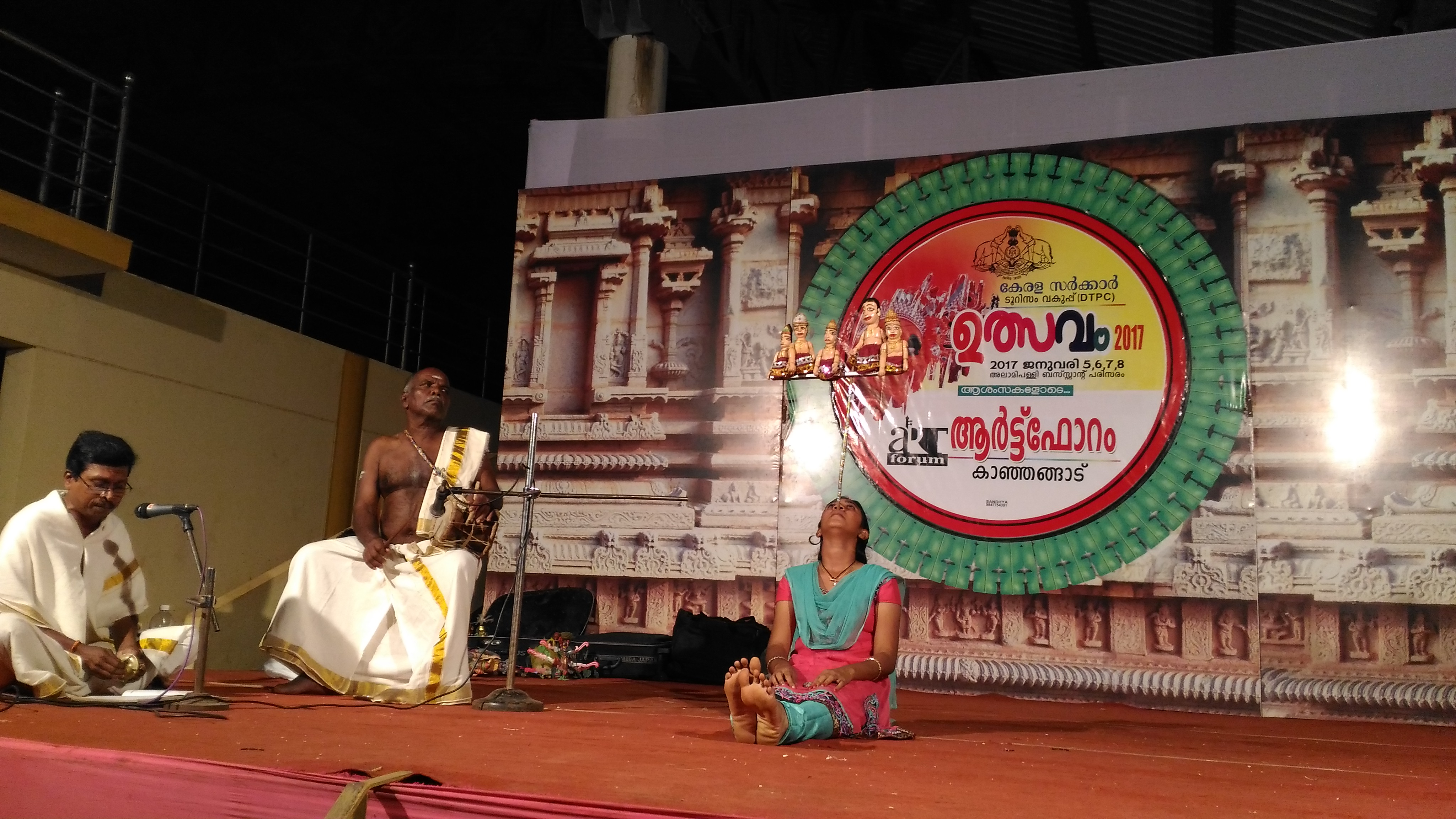 Ranjini, Kottayam, Kerala performing Nokuvidyapavakali at the stage of UTSAVAM2017 at Kanhangad in Kasaragod Dt.